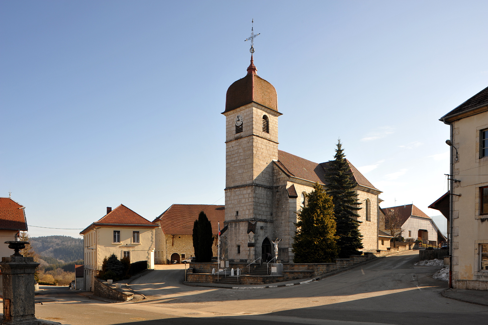 Ouhans, church Saint-Maurice; Franche-Comté, France.